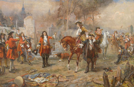 The Duke of Marlborough greeting Prince Eugene of Savoy after their victory at Blenheim, Oil on canvas